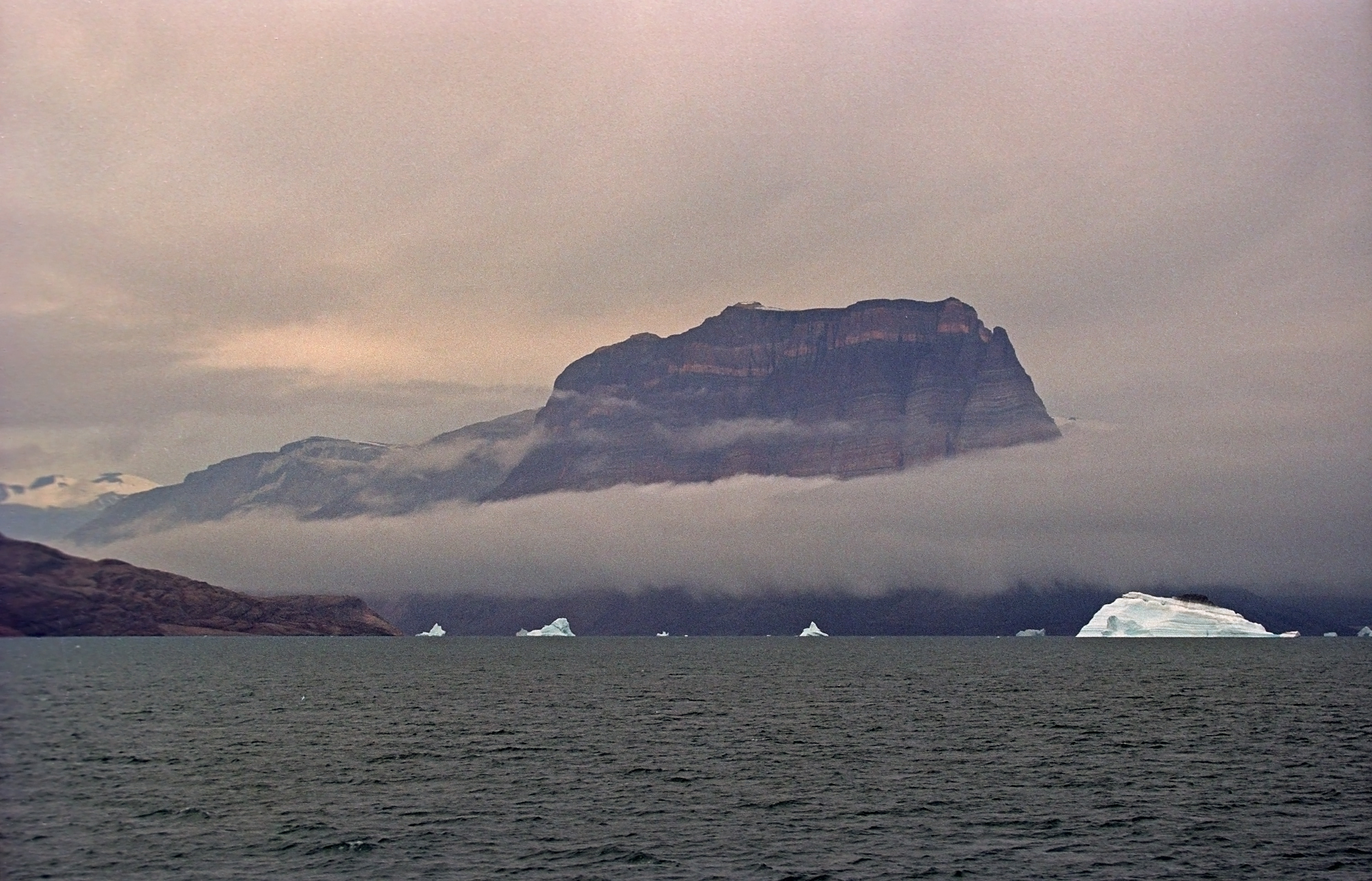 Teufelsschloss (Devil's Castle). Kejser Franz Joseph Fjord, East Greenland